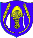 Coat of arms of Šid, Serbia/Blason de la ville de Šid en Serbie